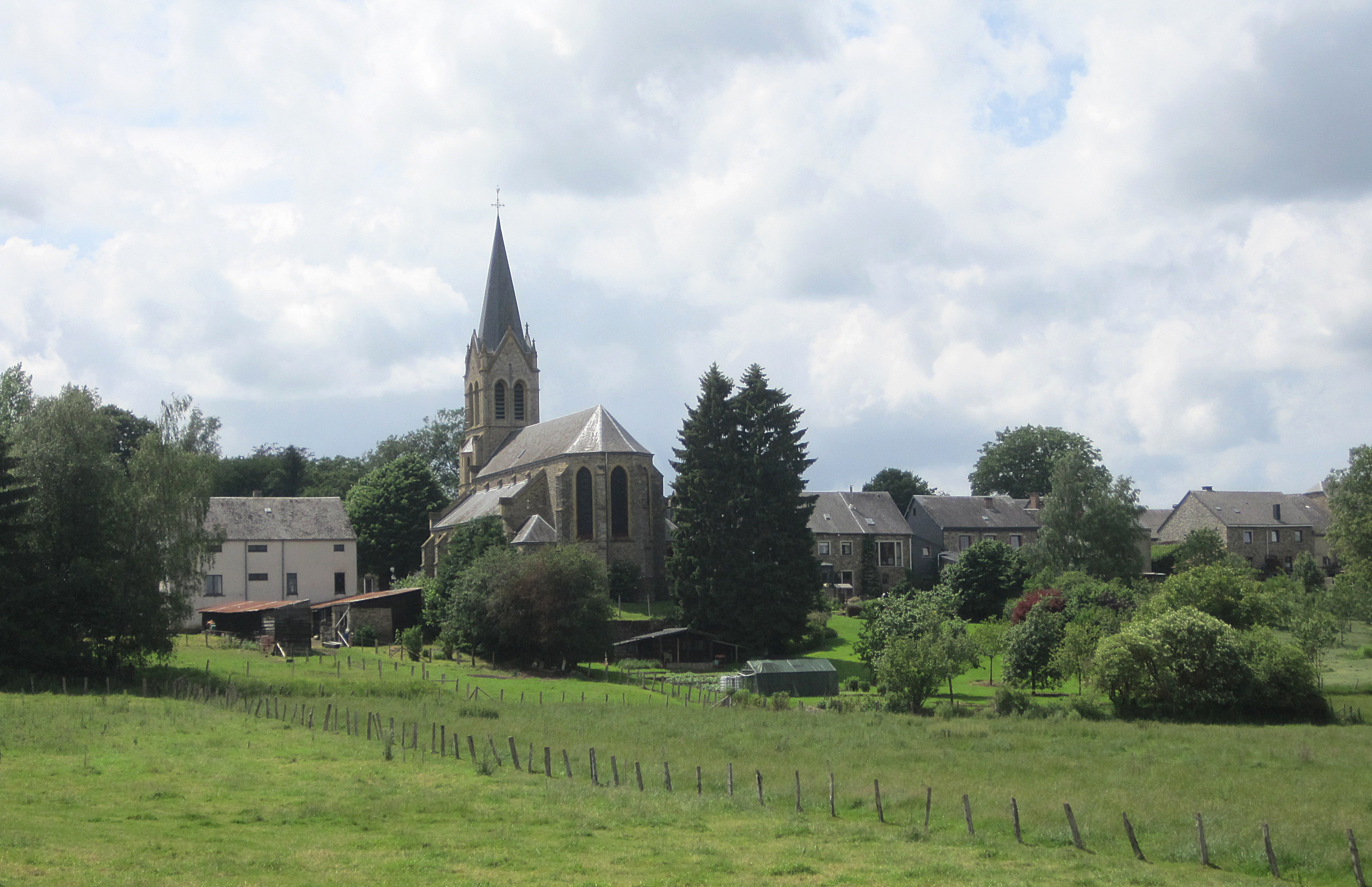 Hatrival (Belgium), the village in the summer.